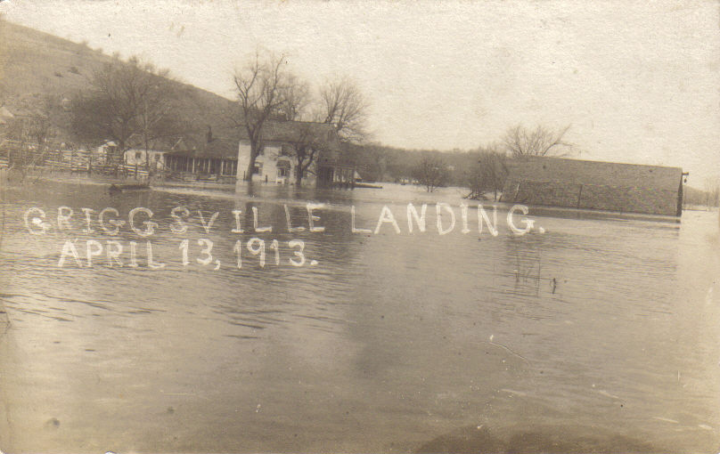 Illinois River flooding at Griggsville Landing (now a ghost town) in Flint Township, Pike County, Illinois